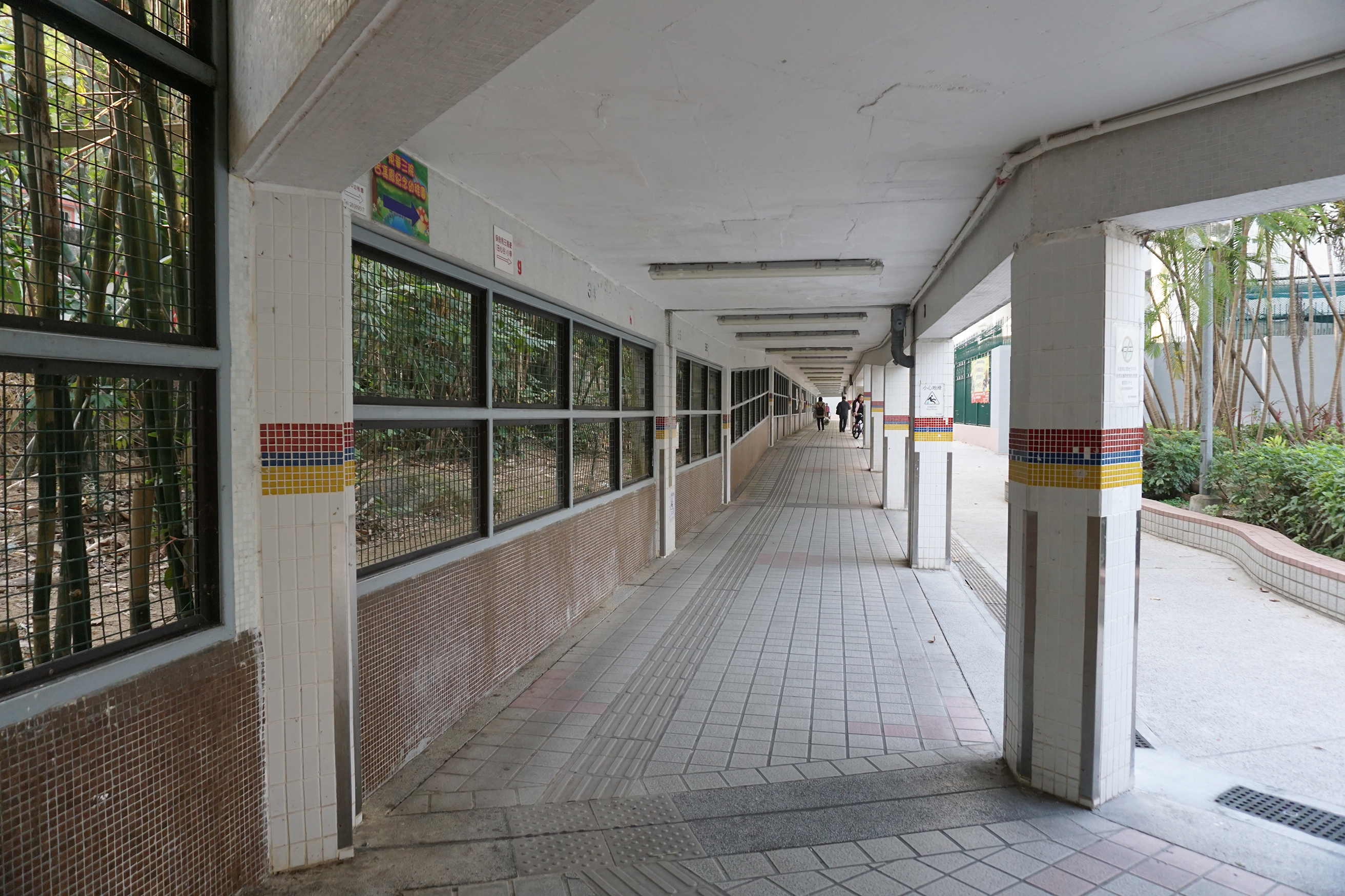 Lung Hang Estate in Tai Wai, Hong Kong.